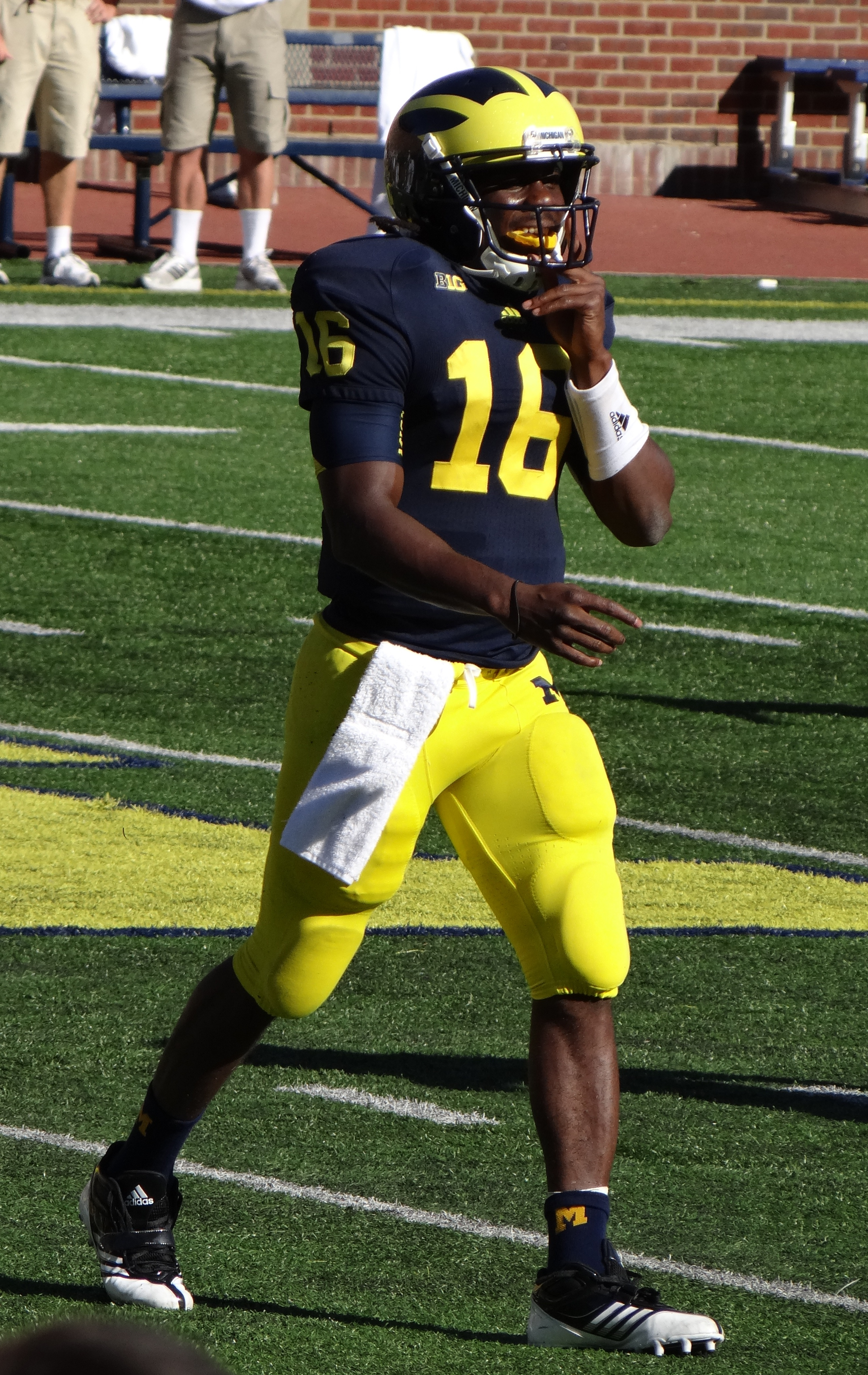 Michigan quarterback Denard Robinson